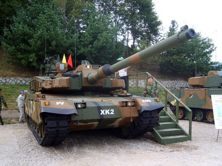 promotional picture of the K2 Black Panther tank